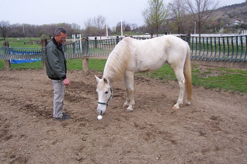 First steps of horse clicker training: targeting.